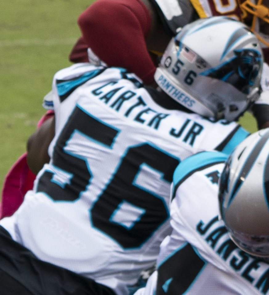 Panthers at Redskins 10/14/18